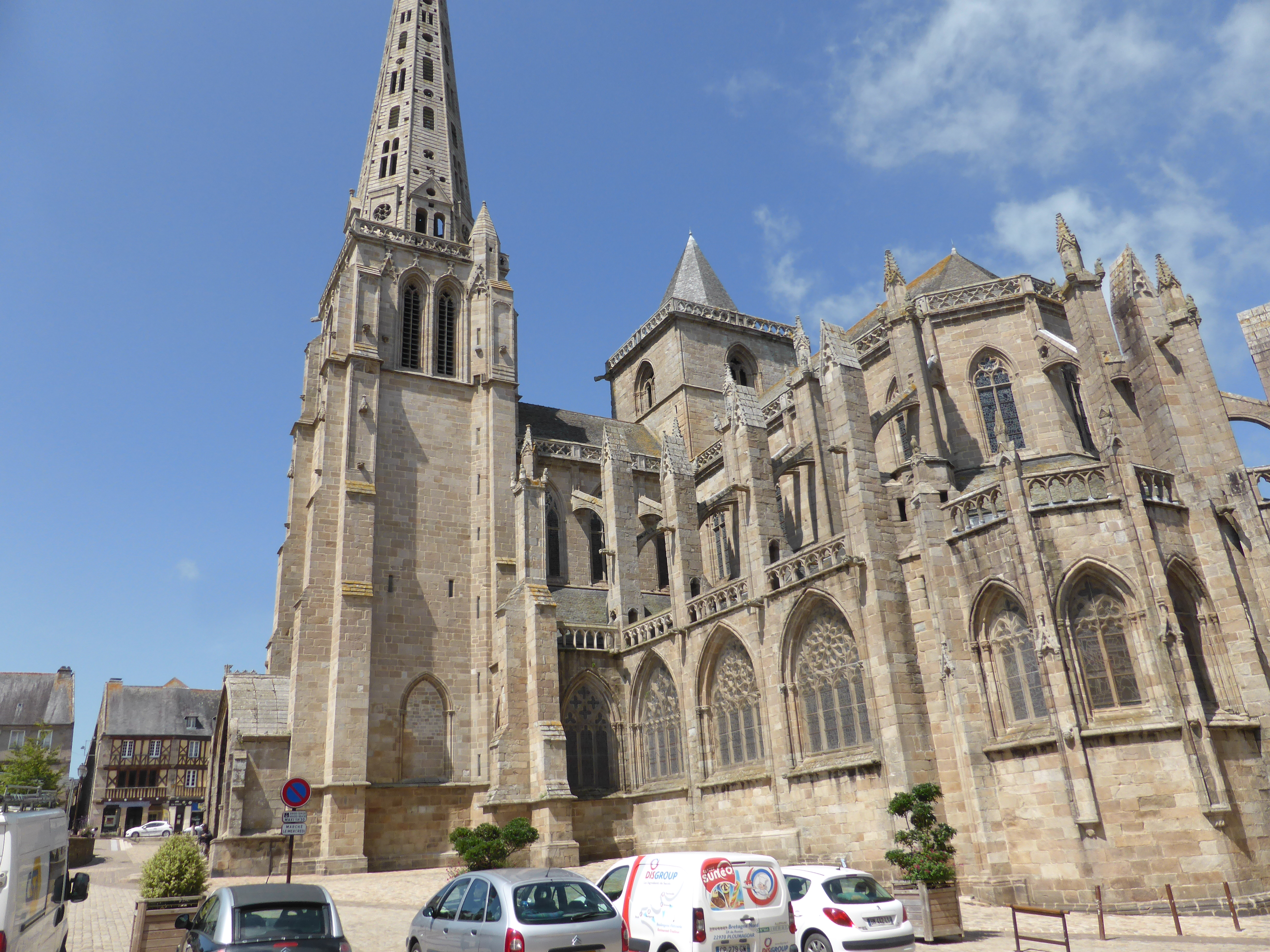 Saint-Tugdual cathedral in Tréguier